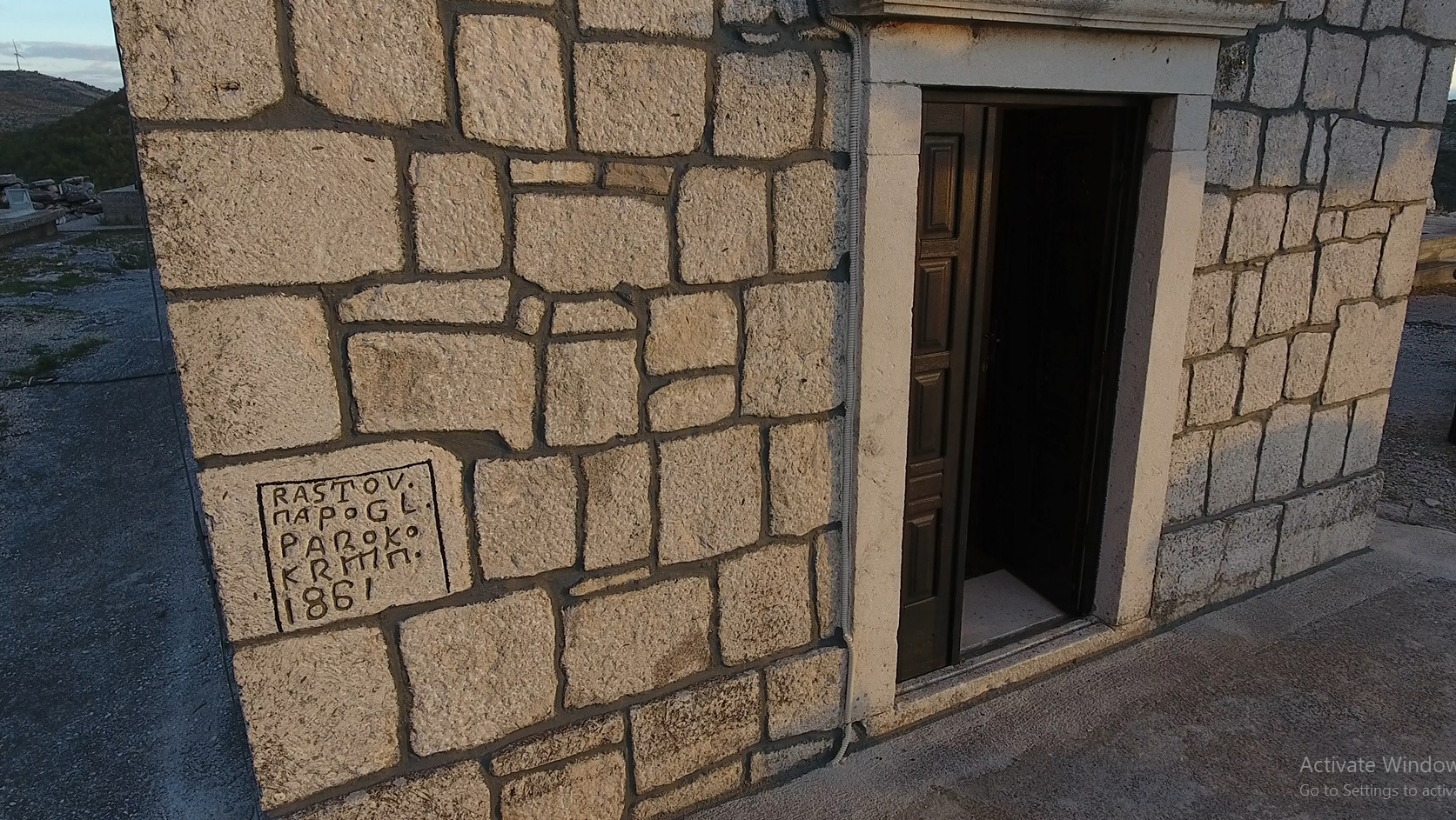 Inscription on the Church of Our Lady of Health in Rastovac,Marina,Croatia